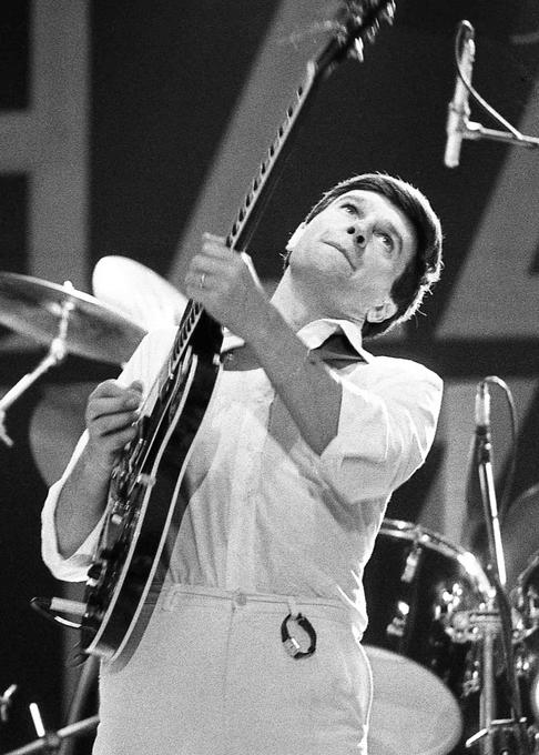 John McLauglin in One Truth Band, Jazz Bilzen 1978